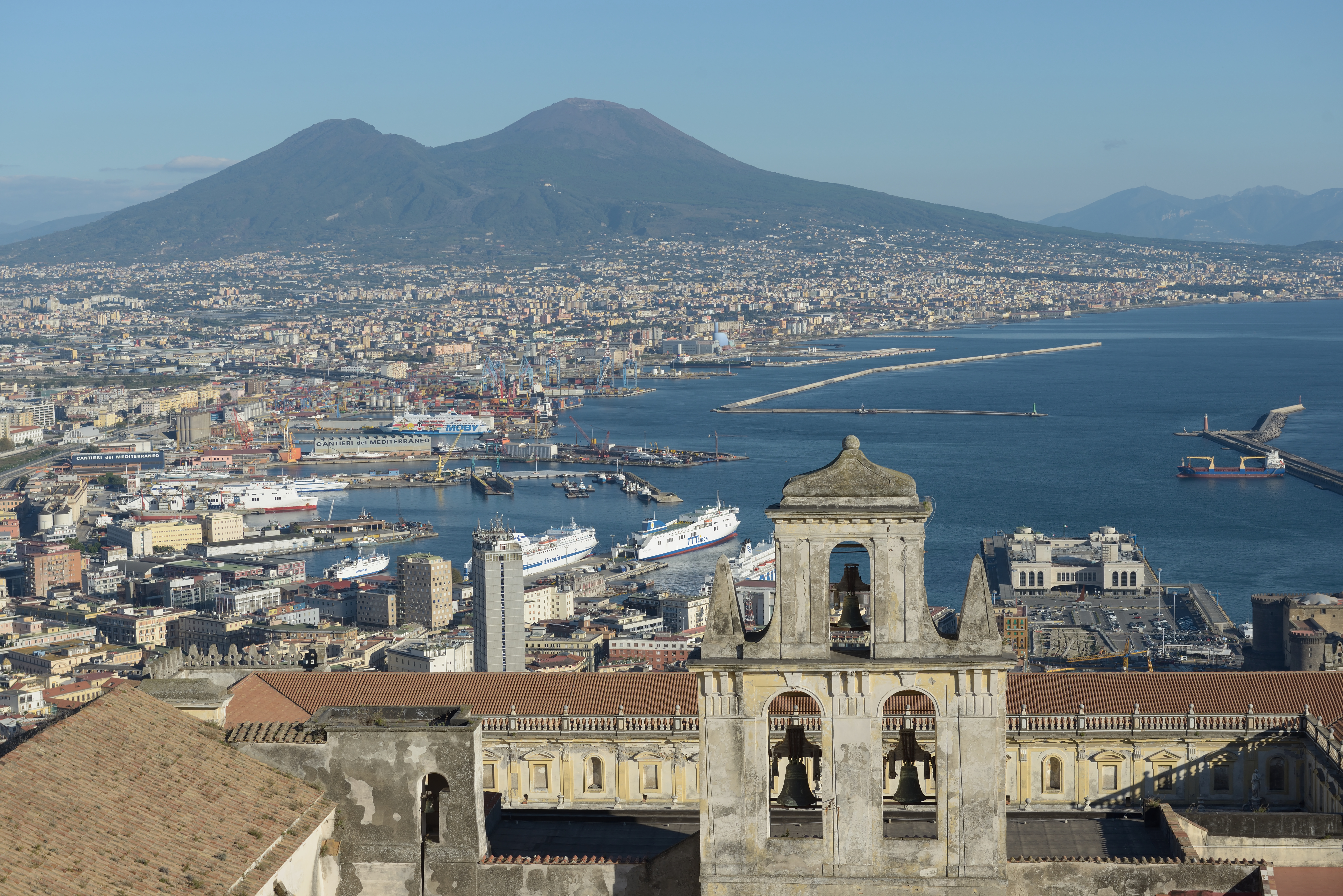 View of the gulf of Naples from the Castel Sant'Elmo with the Certosa di San Martino.